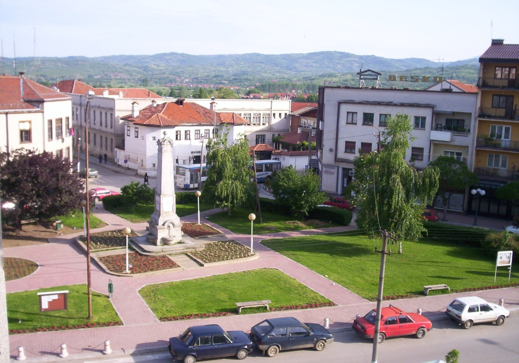 Vlasotince, south-east Serbia, town centre, town center, WW I monument, former Turkish administrative building, Ottoman Empire fortification, museum .